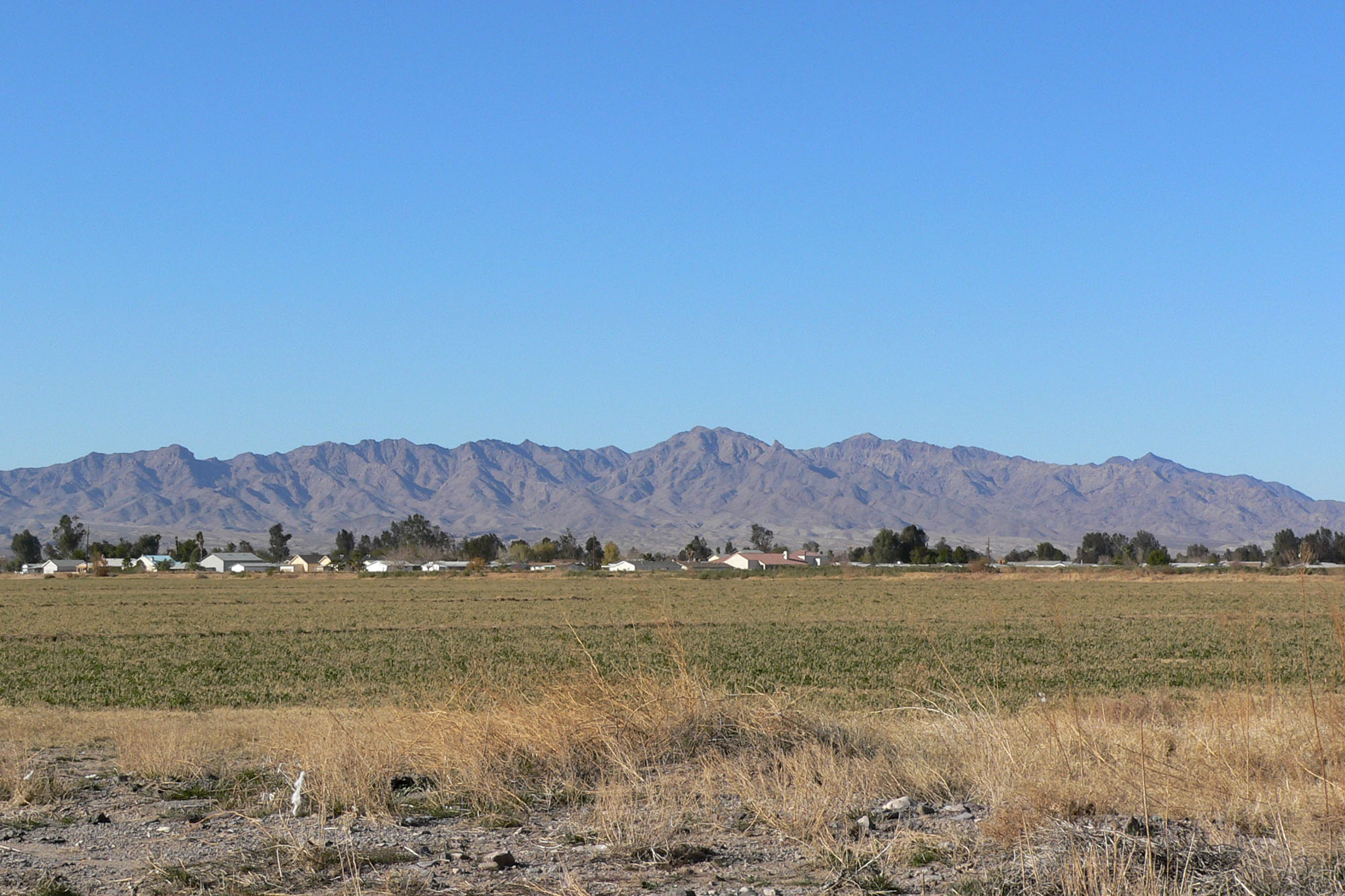 The Dead Mountains as seen from highway 95 in Mohave Valley, Arizona.View looking west; high point at center-right, Mount Manchester, at 3,598 feet (1,097 m); an unnamed peak is to the south (left), at 2,894 feet (882 m).